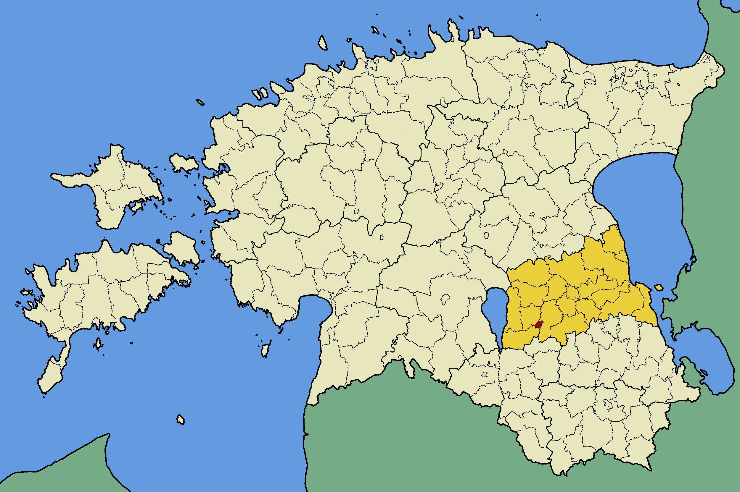 Map of Estonia with borders of municipalities (parishes). Tartu county and Elva town municipality emphasized.